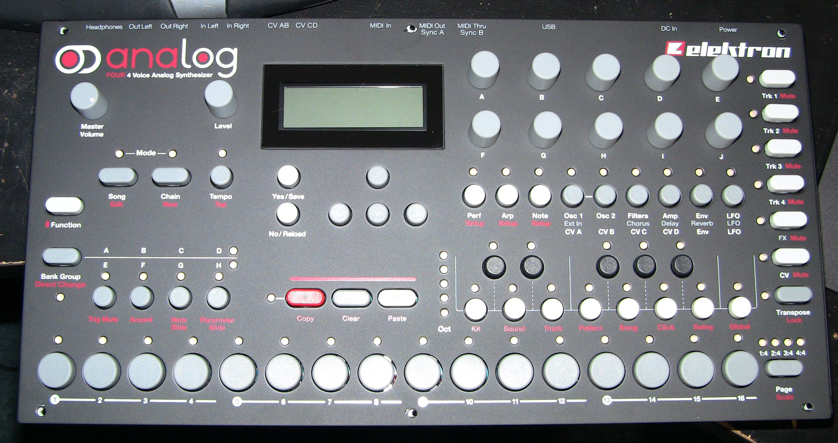 Inside the Electron Analog Four 4 voice analog synthesizer. Well, this is the *outside*. Note that all six screws holding the panel down were installed at slight angles, so each of them bit into the paint a little. You can't correct this as it's the tapping which is off. An irritating but very minor detail.